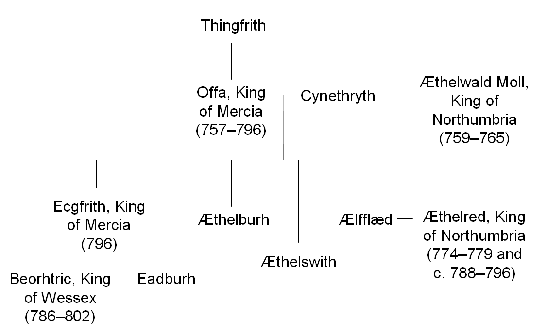 Genealogy of Offa of Mercia